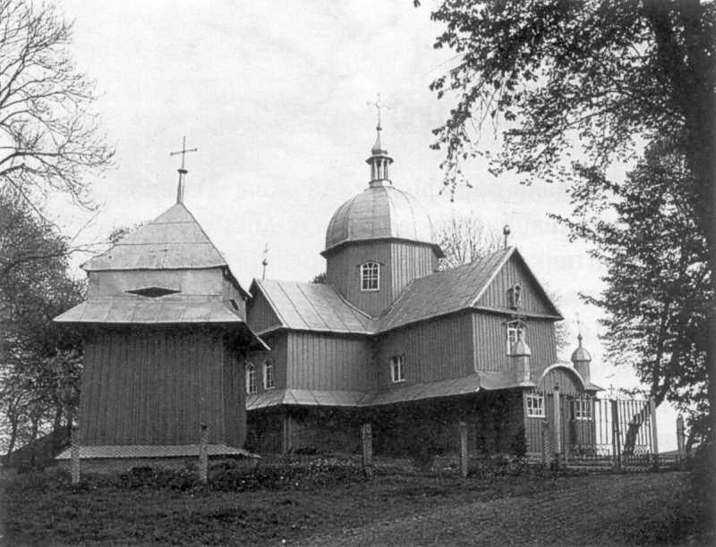 Wooden Church in Ukraine. Dydiatychi